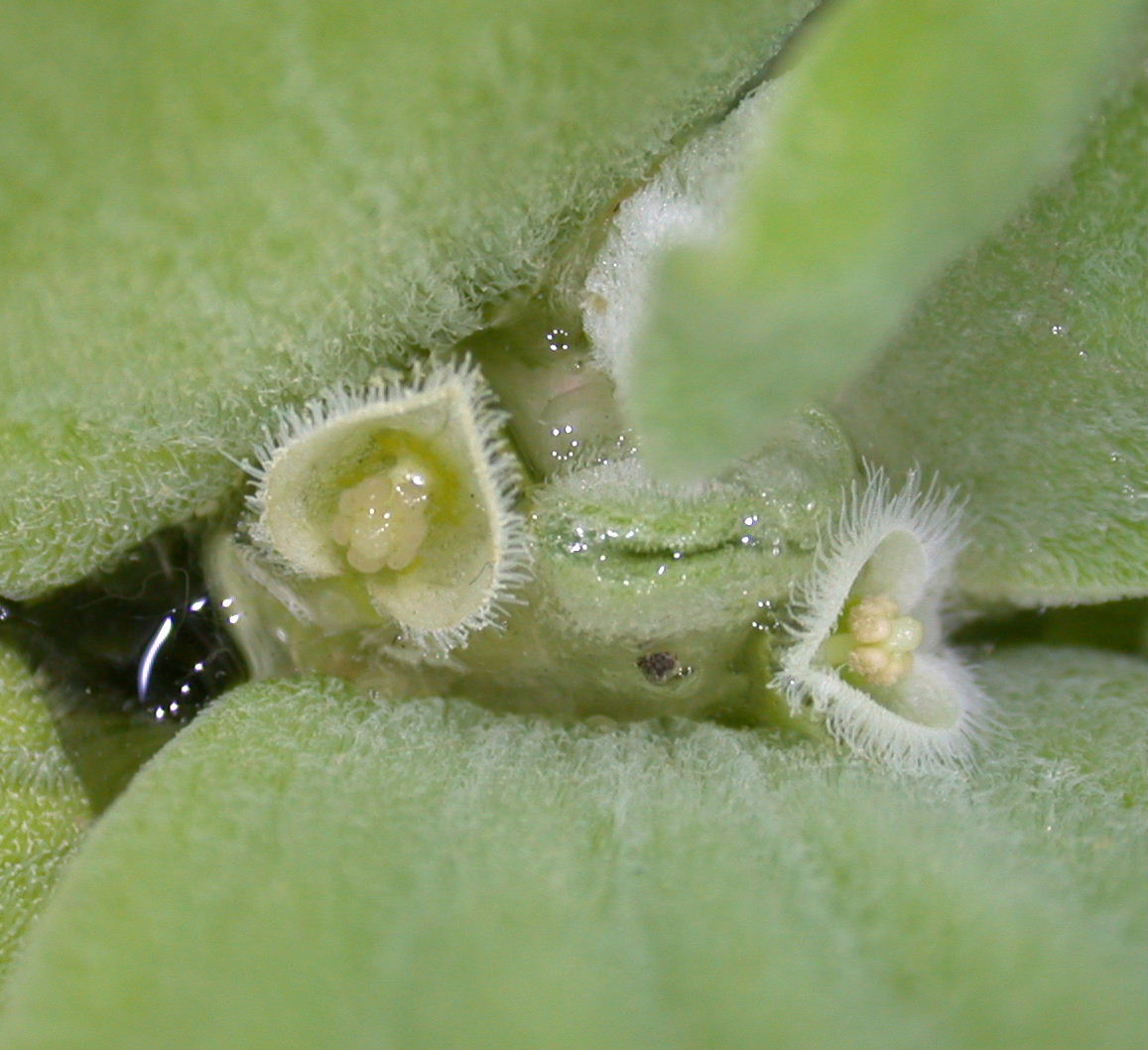 Flowering Pistia stratiotes (Araceae) photographed in an Osaka park, Japan Author: Keisotyo